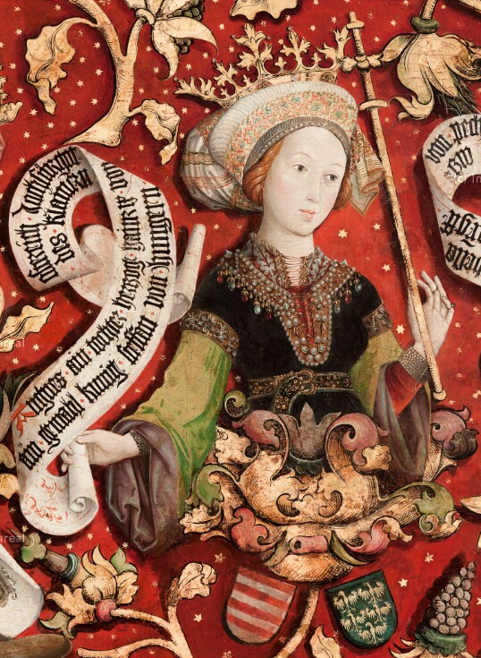 The inscription in the woman's hand says: "gemahl kunig Steffan von Hungern" (married Stephen of Hungary).